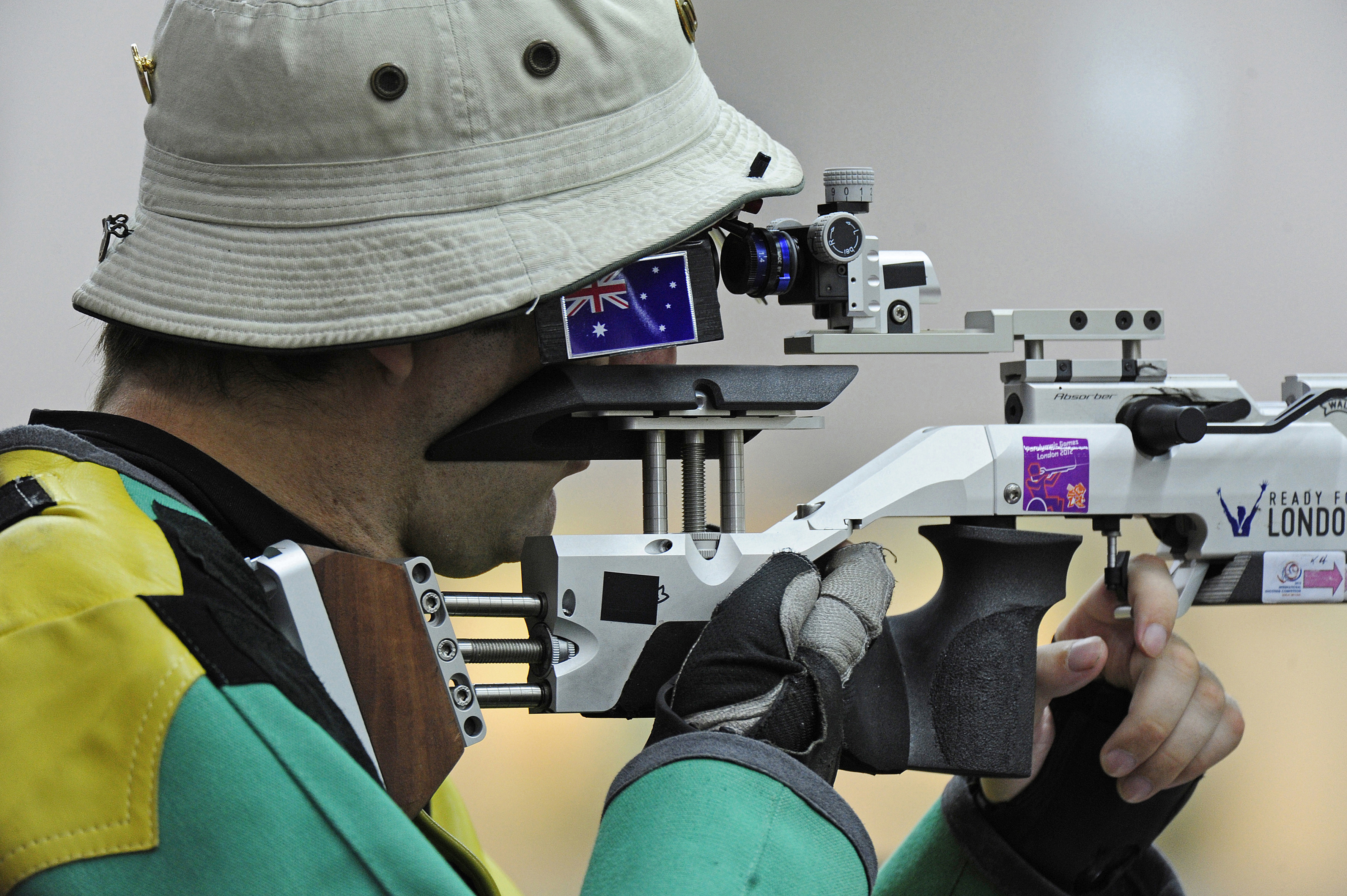 Photograph of Australian Paralympic team member Luke Cain at the 2012 Summer Paralympic Games in London